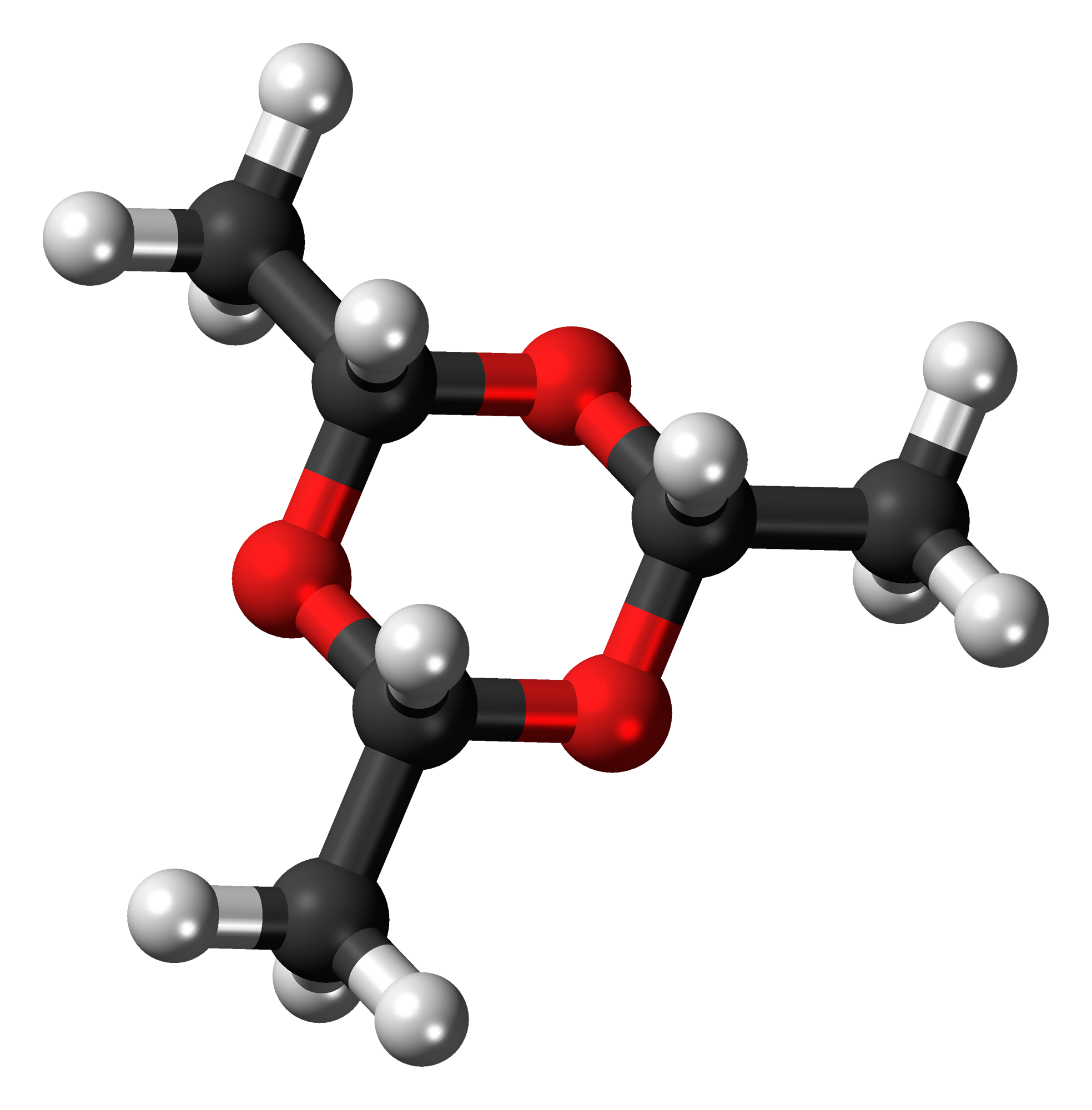 Ball-and-stick model of the paraldehyde molecule, the cyclic trimer of acetaldehyde. Colour code: Carbon, C: black Hydrogen, H: white Oxygen, O: red